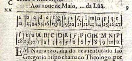 Detail of fol. 92v of the book "Martyrologio romano acomodado a todos os dias do anno conforme à noua ordem do Calendario, que se reformou por mandado do Papa Gregorio XIII", printed in Coimbra by António de Mariz in 1591, following the "Roman Martyrology" edited in 1583, in Rome, by order of Pope Gregory XIII.